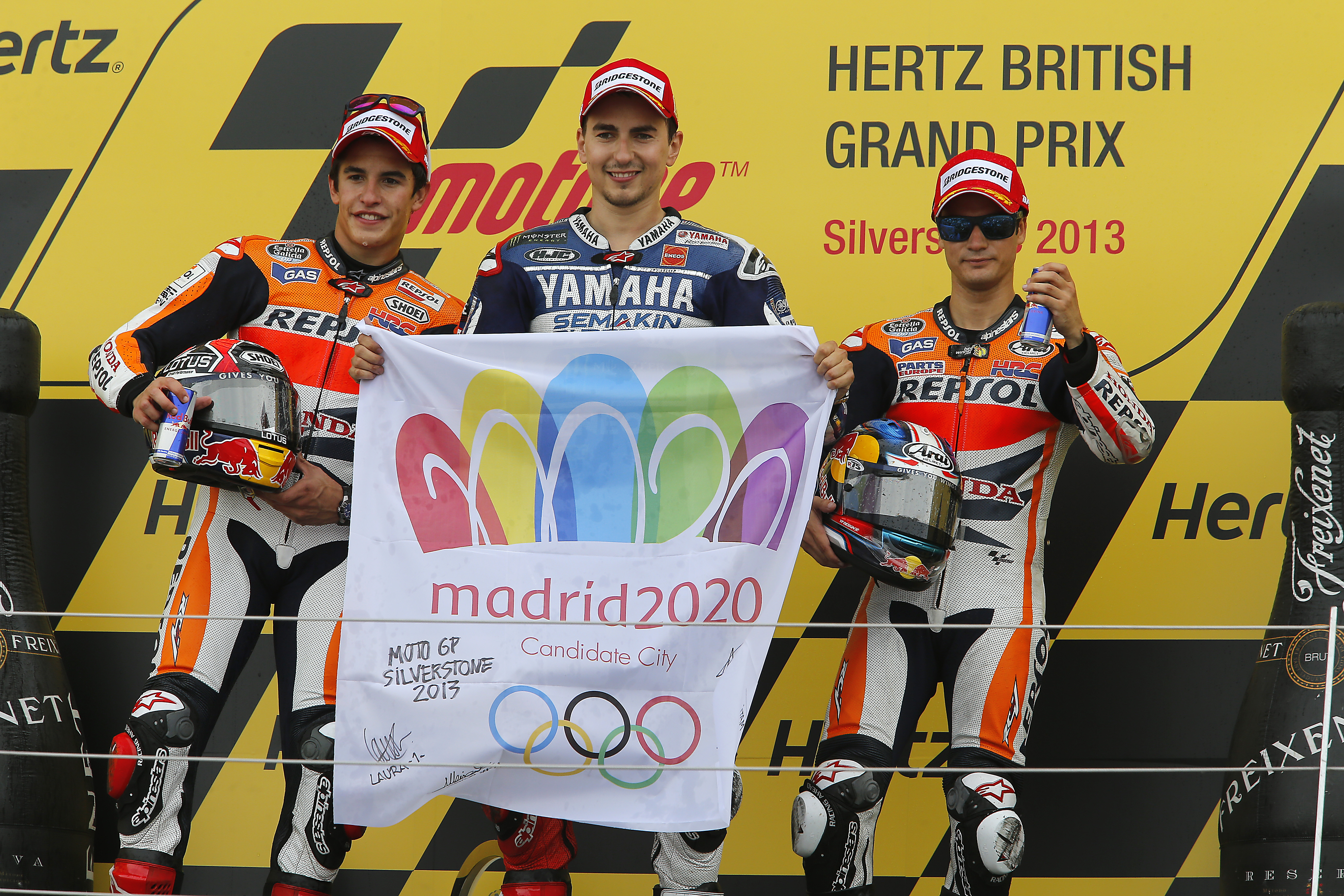 Marc Márquez, Jorge Lorenzo and Dani Pedrosa, celebrating on the podium after finishing in second, first and third place and holding a sign that endorses the candidacy of Madrid to host the 2020 Summer Olympics at the 2013 British Grand Prix.